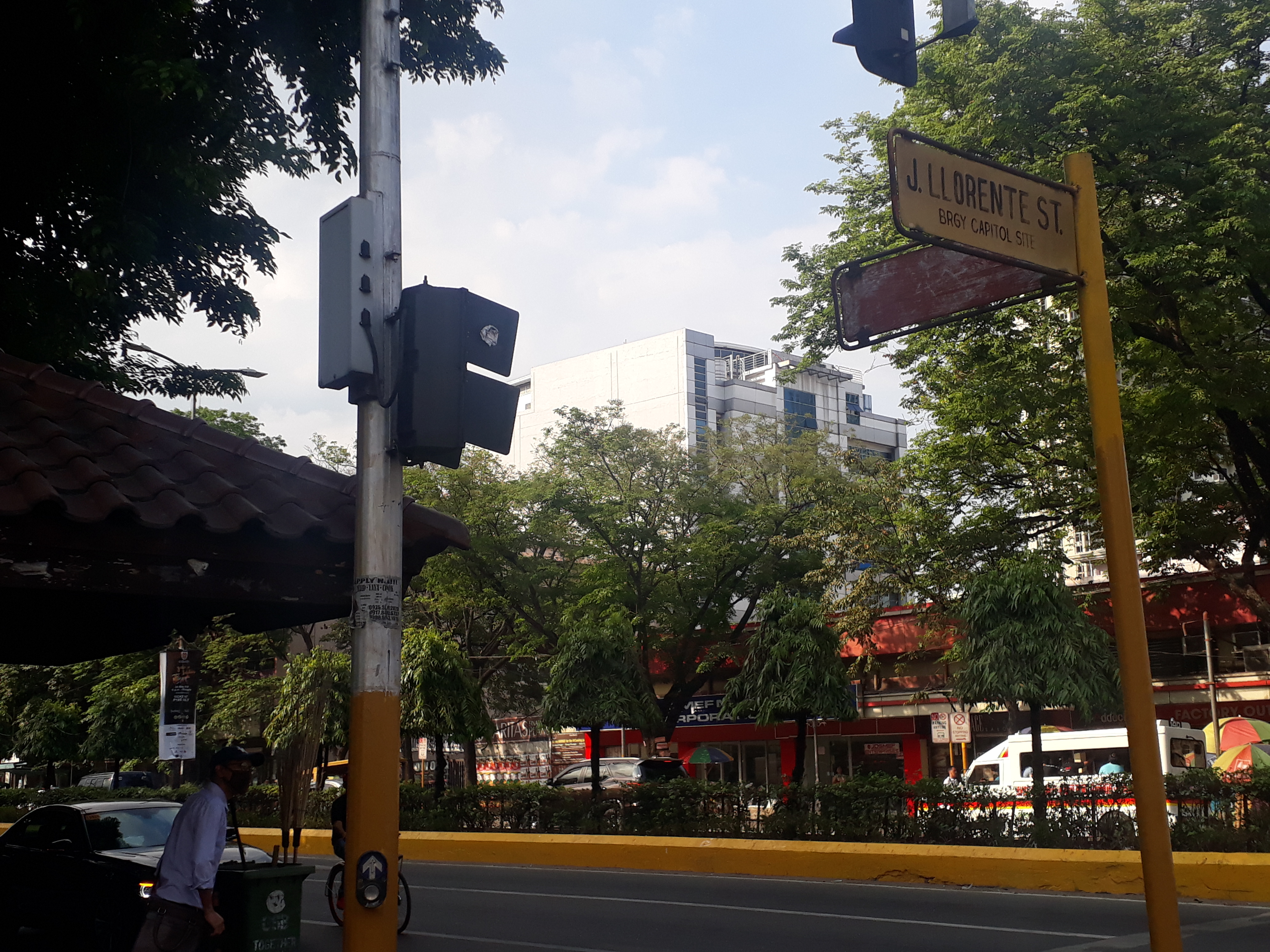 A picture of the street sign J. Llorente Street, named in honor of Cebu Governor Julio Aballe Llorente